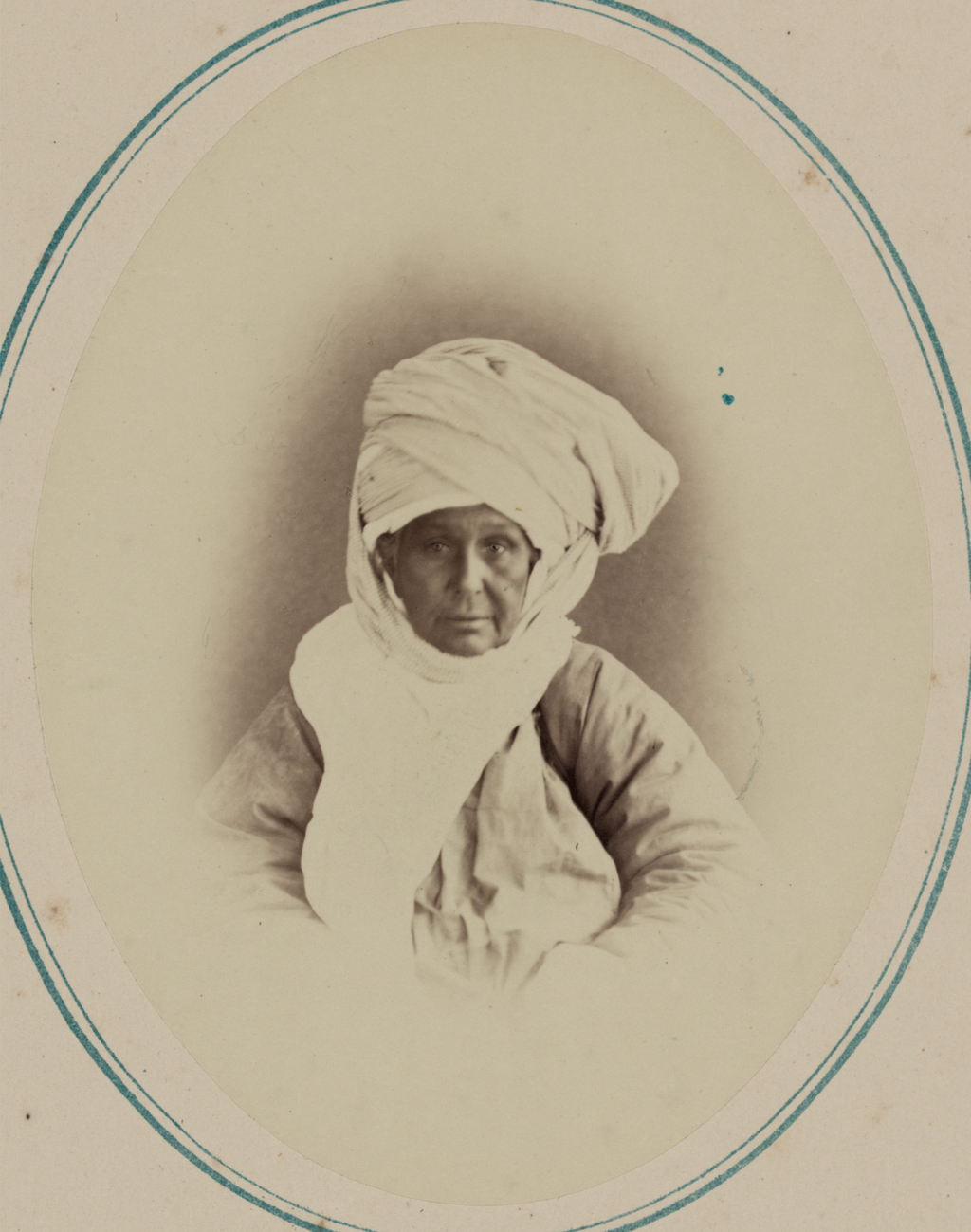 This photograph is from the ethnographical part of Turkestan Album, a comprehensive visual survey of Central Asia undertaken after imperial Russia assumed control of the region in the 1860s. Commissioned by General Konstantin Petrovich von Kaufman (1818–82), the first governor-general of Russian Turkestan, the album is in four parts spanning six volumes: “Archaeological Part” (two volumes); “Ethnographic Part” (two volumes); “Trades Part” (one volume); and “Historical Part” (one volume). The principal compiler was Russian Orientalist Aleksandr L. Kun, who was assisted by Nikolai V. Bogaevskii. The album contains some 1,200 photographs, along with architectural plans, watercolor drawings, and maps. The “Ethnographic Part” includes 491 individual photographs on 163 plates. The photographs show individuals representing the different peoples of the region (Plates 1–33); daily life and rituals (Plates 34–91); and views of villages and cities, street vendors, and commercial activities (Plates 92–163). Clothing and dress; Ethnographic photographs; Headgear; Photographic surveys; Portrait photographs; Portraits; Romanies; Turkic peoples; Women